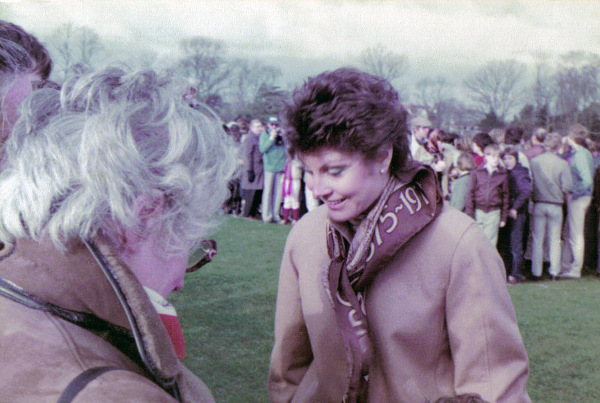 Angela Rippon at Durdham Downs, Bristol on January 16th 1983 during the filming of the opening titles to TV-am's Good Morning Britain show which began broacasting on February 1st that year. The idea was for the crowds to position themselves to spell out "Good Morning Britain" (and in case you were wondering, me and my Dad were stood in the "D"!).